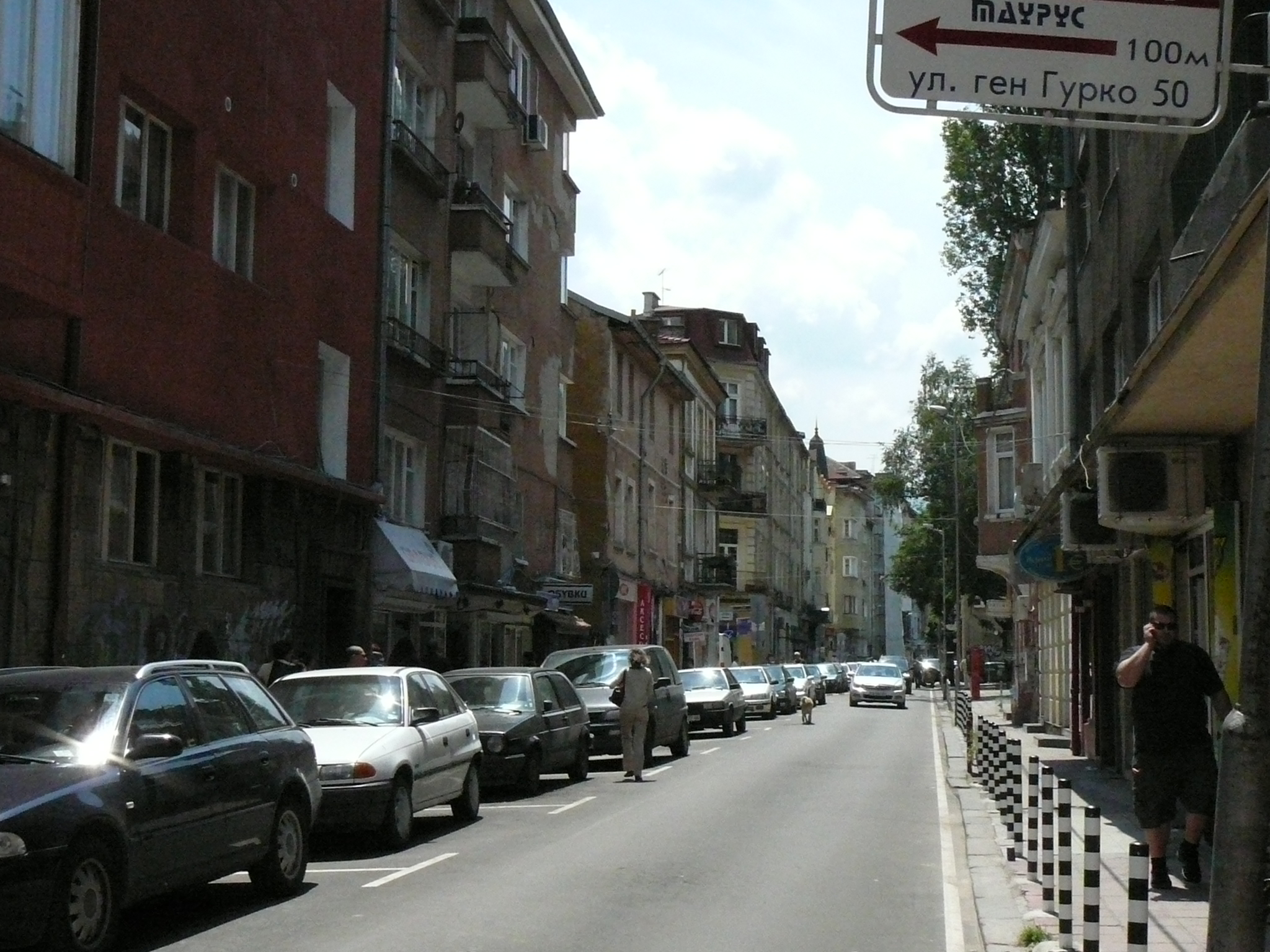 Tsar Shishman Street (Sofia)